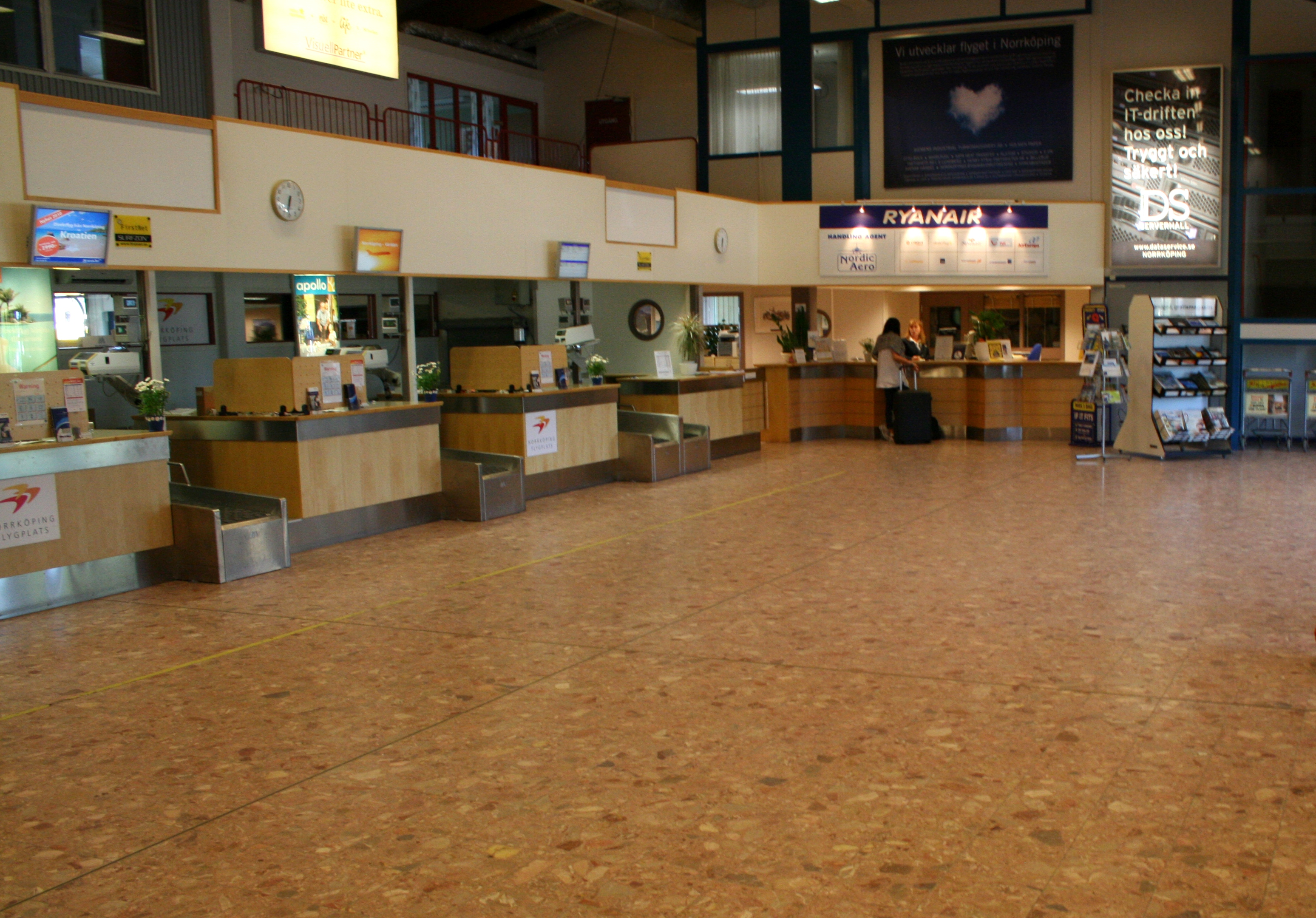 Check-in area at Norrköping Airport